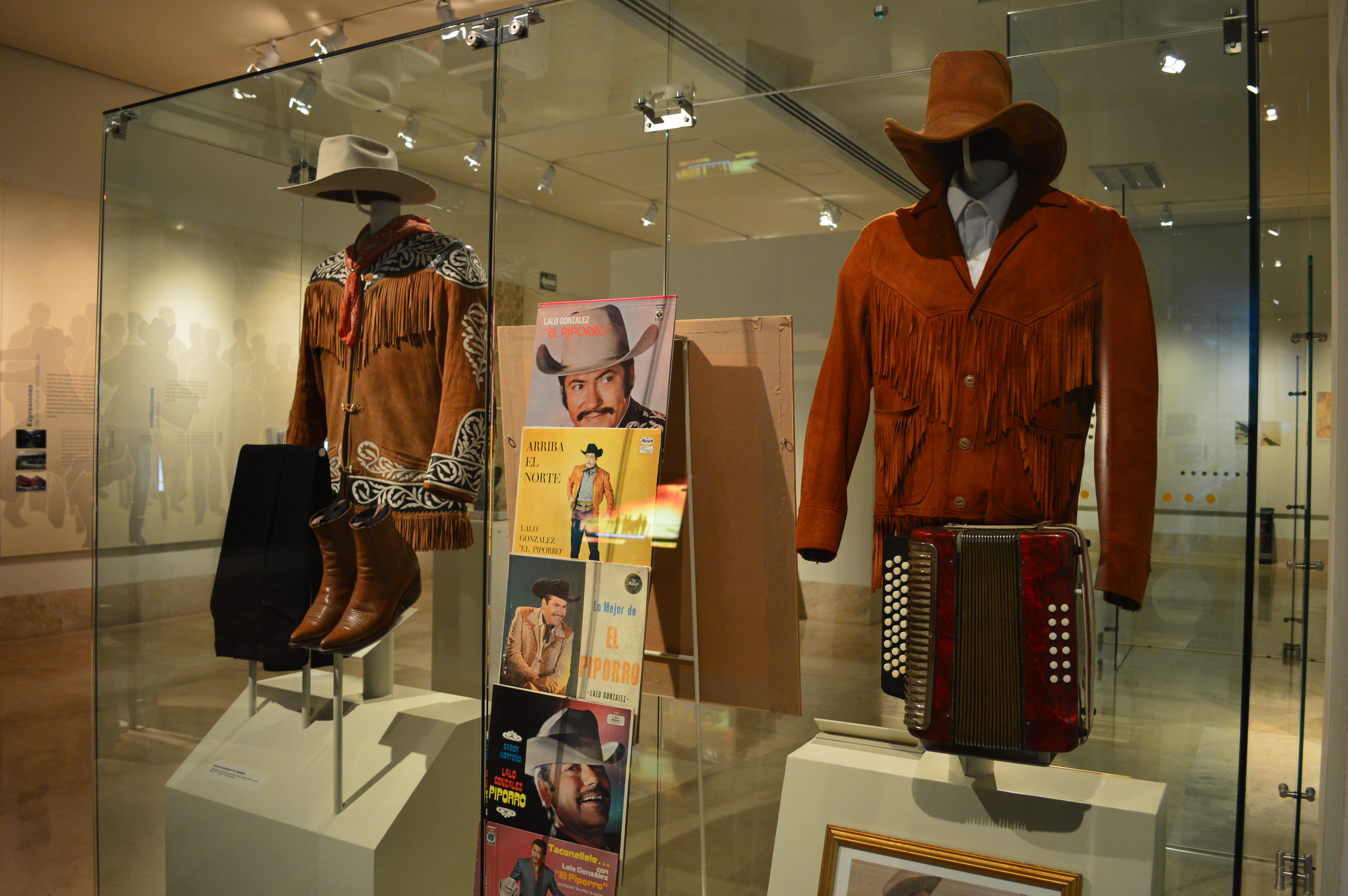 Display dedicated to Eulalio Gonzalez Piporro at the Museo del Noreste in Monterrey, Mexico